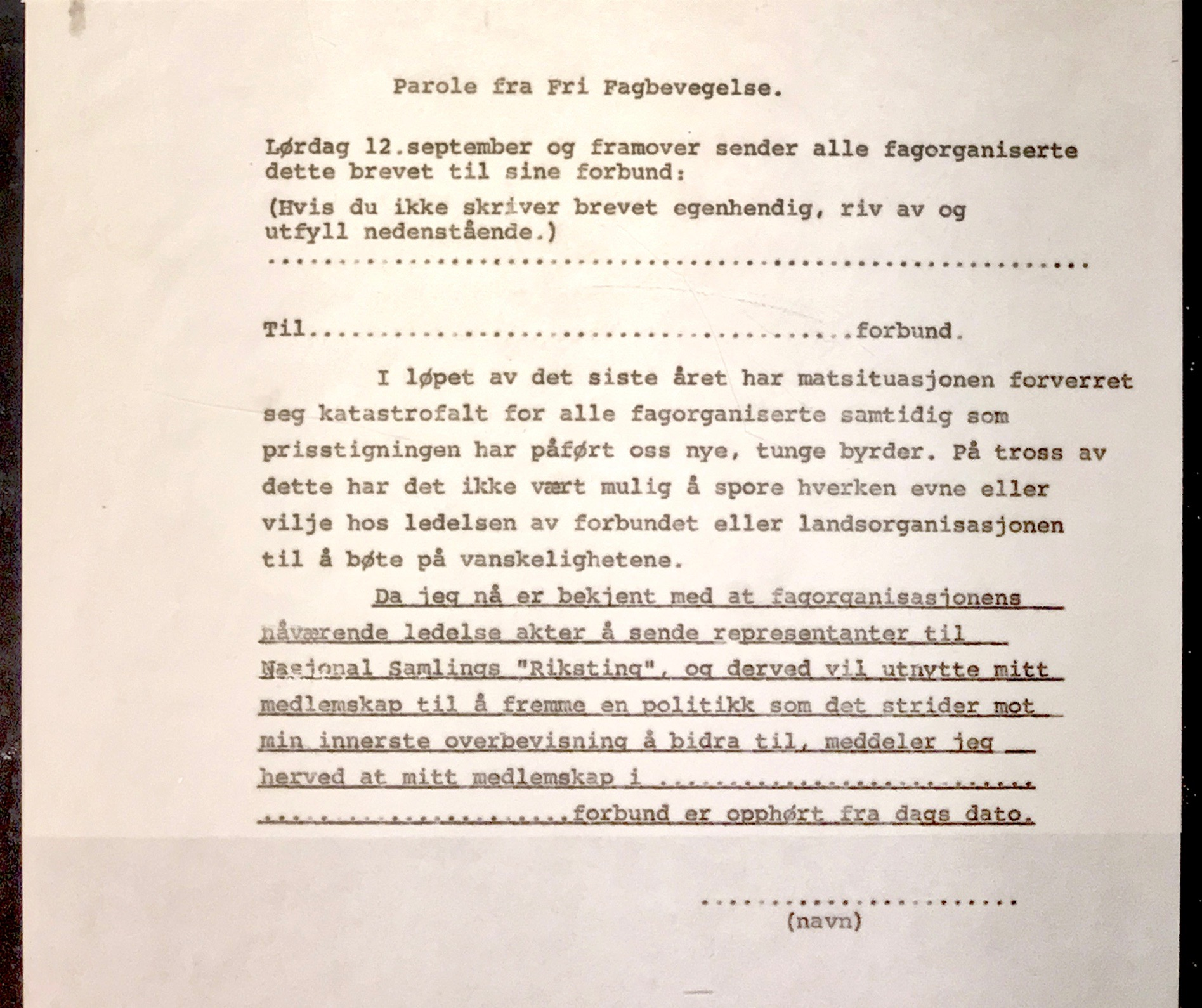 "Parole fra Fri Fagbevegelse" om utmeldelse hvis fagorganisasjonen sender representanter til Nasjonal Samlings Riksting. Photo taken on 2017-11-30 at the exhibition of Norway's WW2 Resistance Museum (Hjemmefrontmuseet) at Akershus fortress in Oslo, Norway.